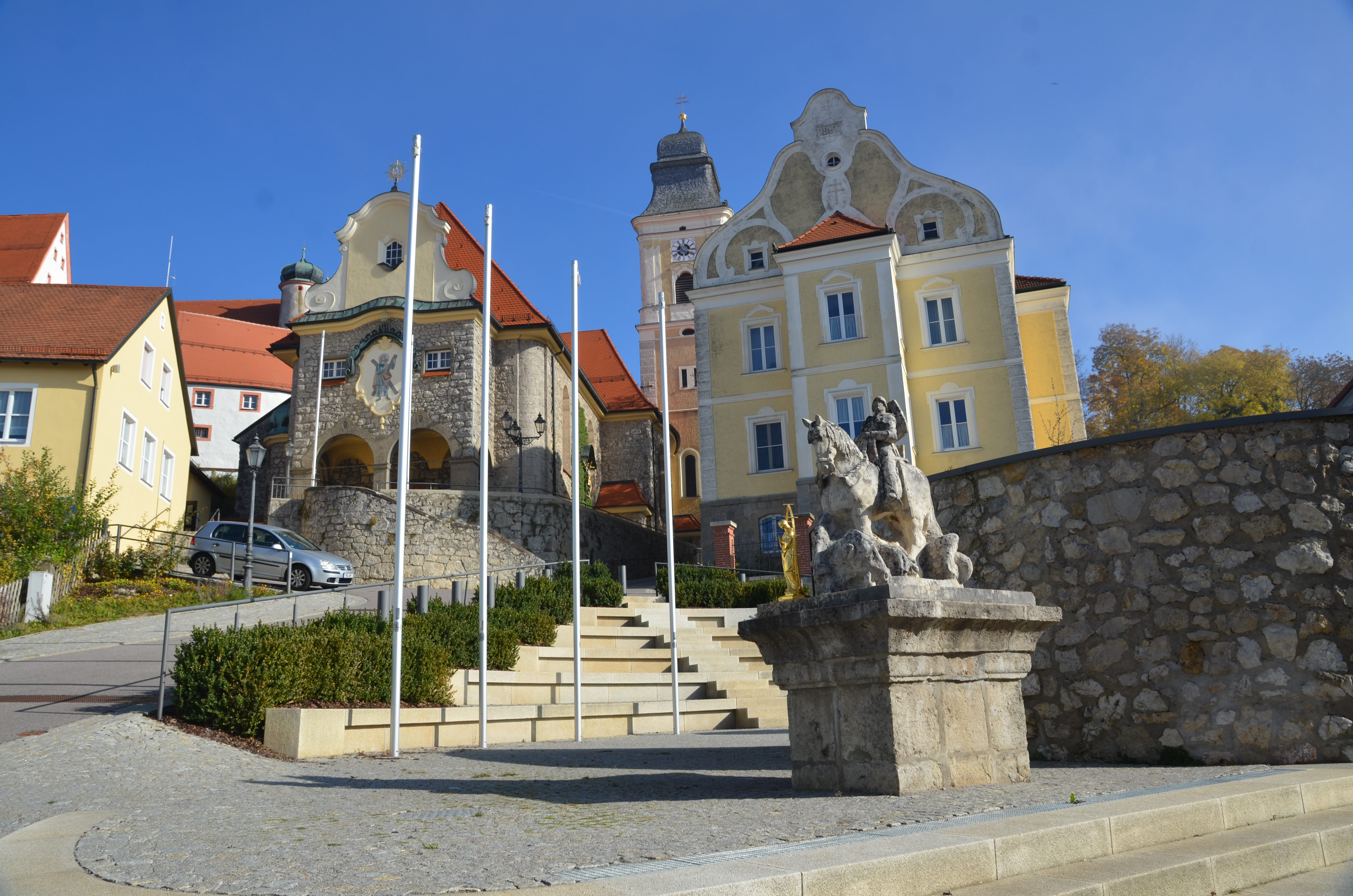 Parsberg (2017)